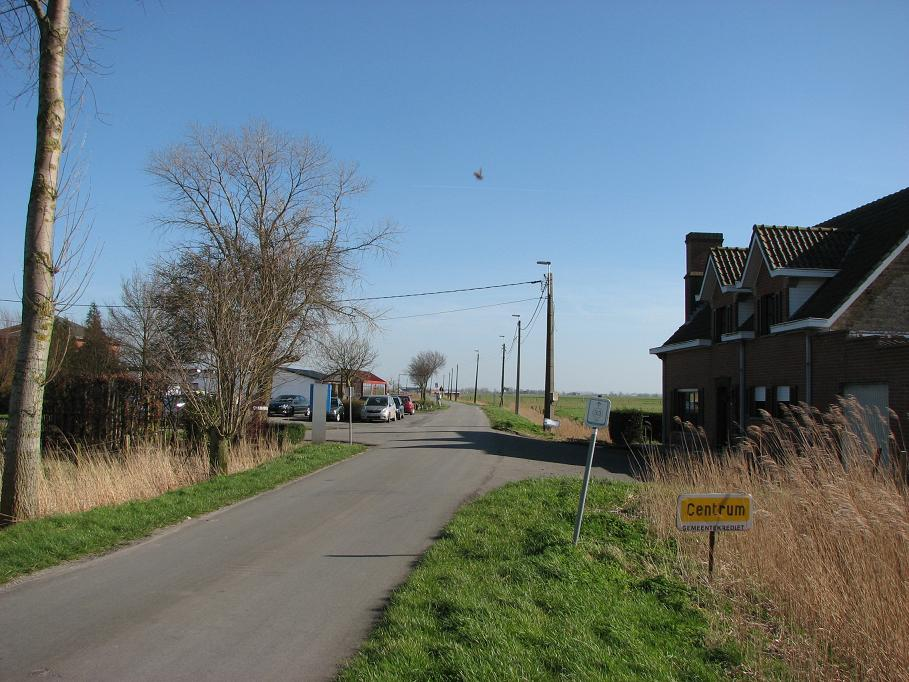 The "village centre" of Zoutenaaie, once the smallest municipality in Belgium. Now part of the municipality of Veurne, West Flanders, Belgium.